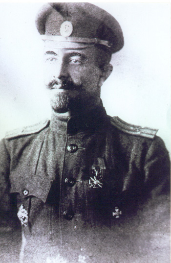 Shikhlinsky, Dzavad-beg Kamed-Aga oly, colonel Russian Imperial Army, General of Azerbaijan and Iran army Javad bey Shikhlinski